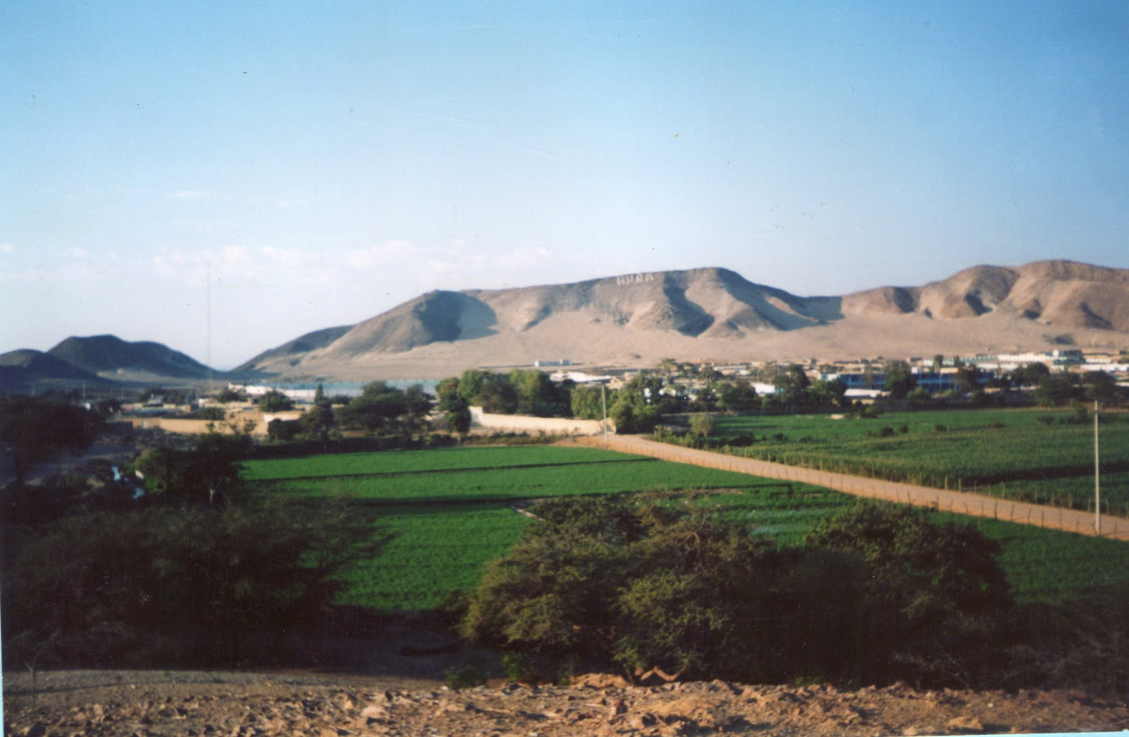 cerro san jose